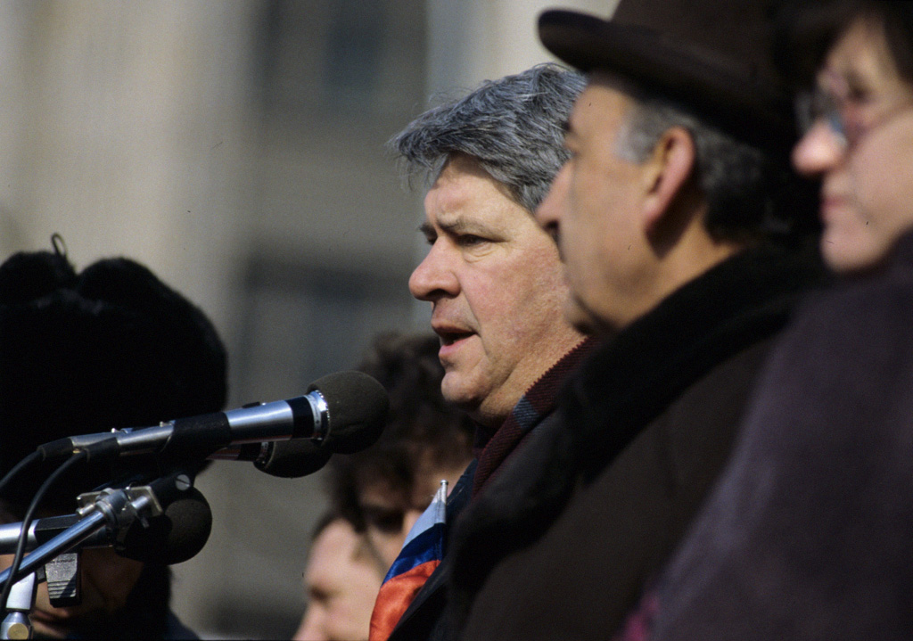 “People's Deputy of USSR Yury Afanasyev attends Moscow meeting to support Boris Yeltsin and Russian presidential referendum”. People's Deputy of the USSR Yury Afanasyev, center, speaking at a Moscow meeting to support Boris Yeltsin's policy and the Russian presidential referendum.